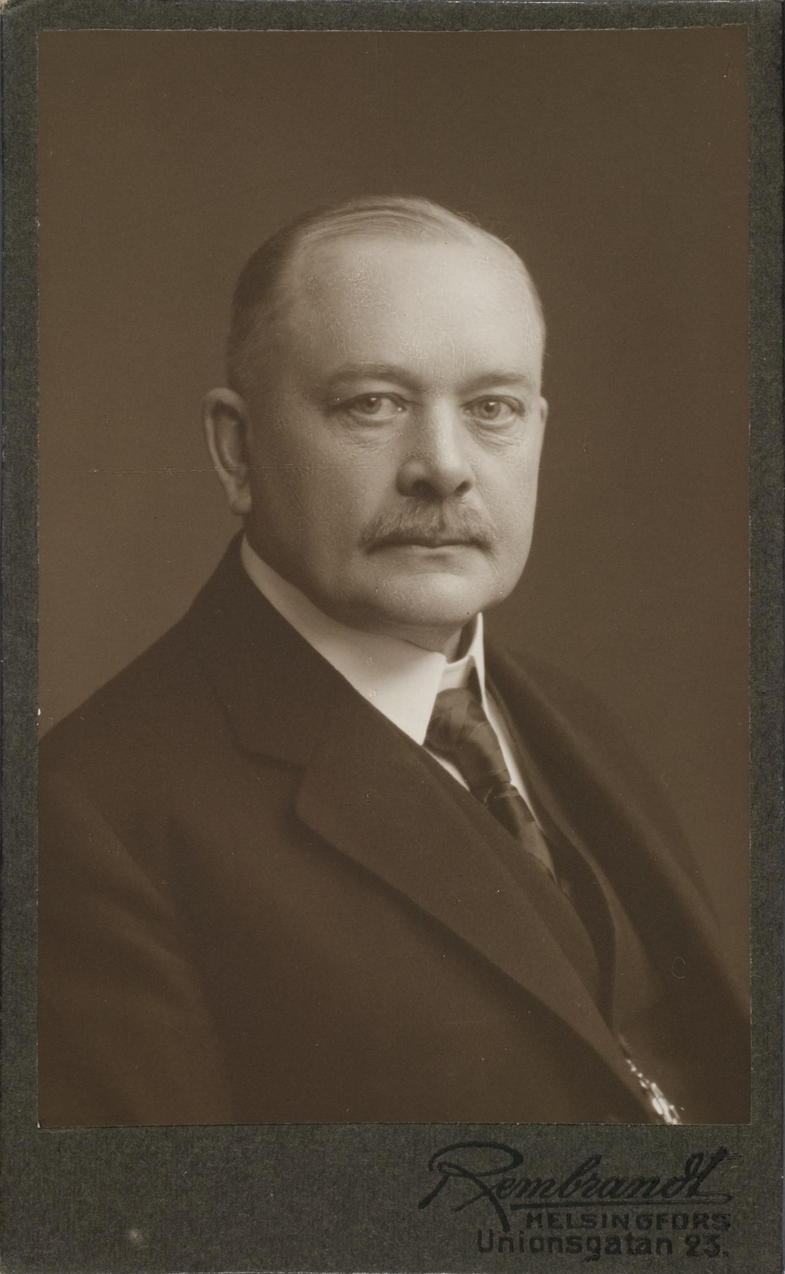 Photograph of the Finnish architect Onni Tarjanne (1864–1946).